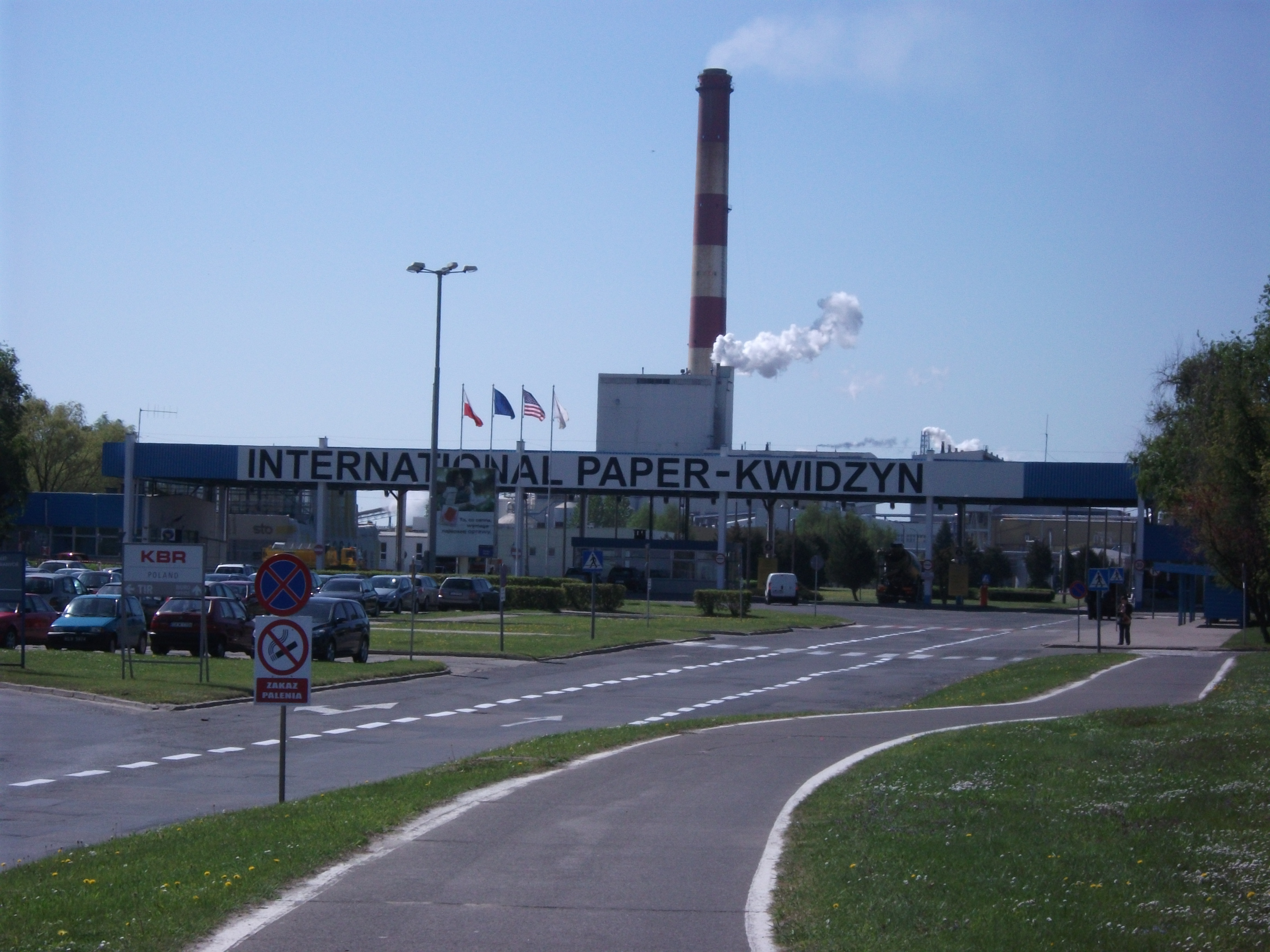 International Paper Kwidzyn Poland